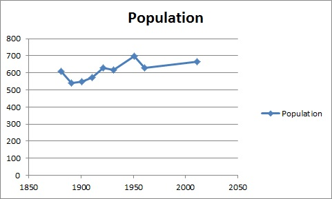 A scatter graph showing the population of the parish peover Superior (located in Cheshire, England) over time.